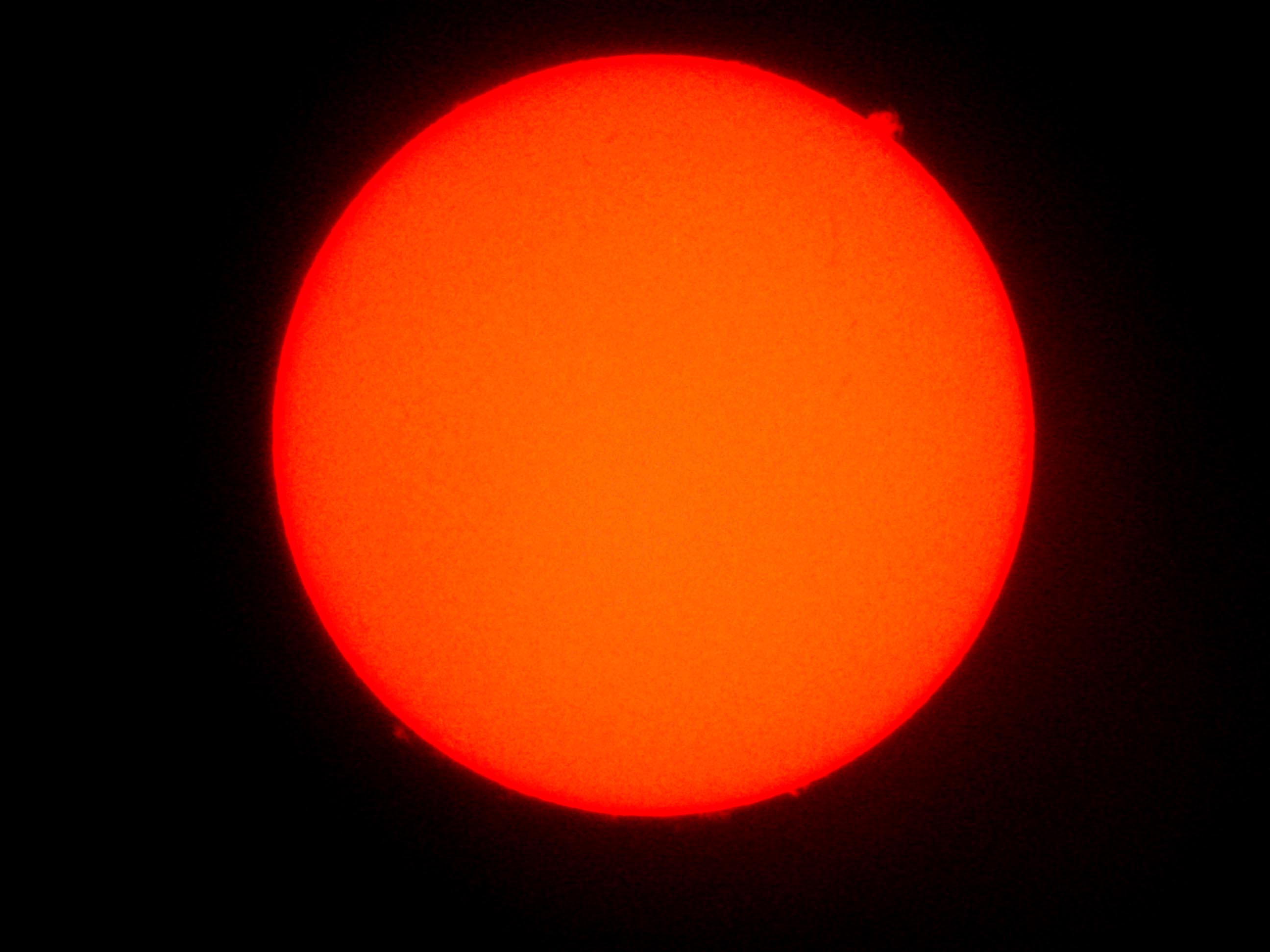 Taken through a hydrogen-alpha filter. Prominences clearly visible with the largest at ~1:30 (of the clock). Best viewed large. Star's Data Approximate surface temperature: 9,900°F Estimated core temperature: 10 to 22.5 million°F Distance from Earth: ~93,026,724 miles Estimated mass: 2 x 1030 kilograms Nuclear output: 600,000,000 tons of hydrogen nuclei converted into helium nuclei each second This is a reprocessed version of this shot, making better use of stretching the histograms.